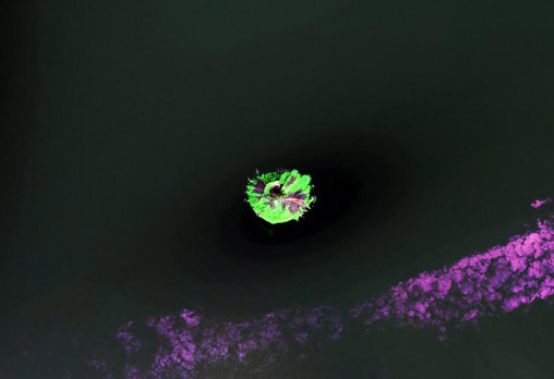 Landsat mosaic of Raikoke, Kuril Islands, Russia